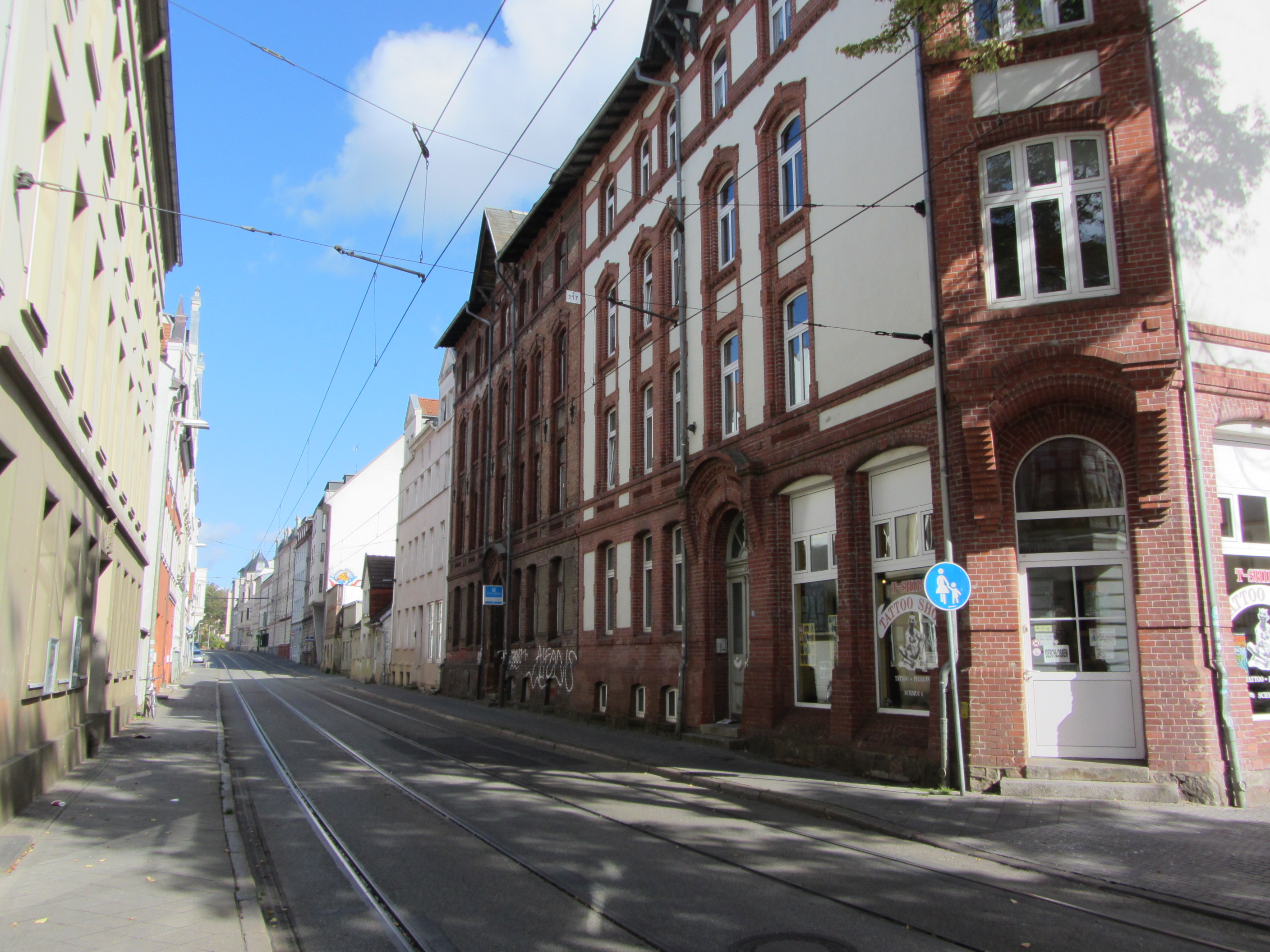 Goethestraße in Schwerin, Mecklenburg-Vorpommern, Germany